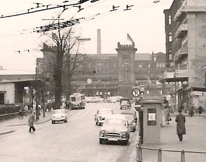 Forecourt of Saarbrücken Main Station, Germany, in September 1957.